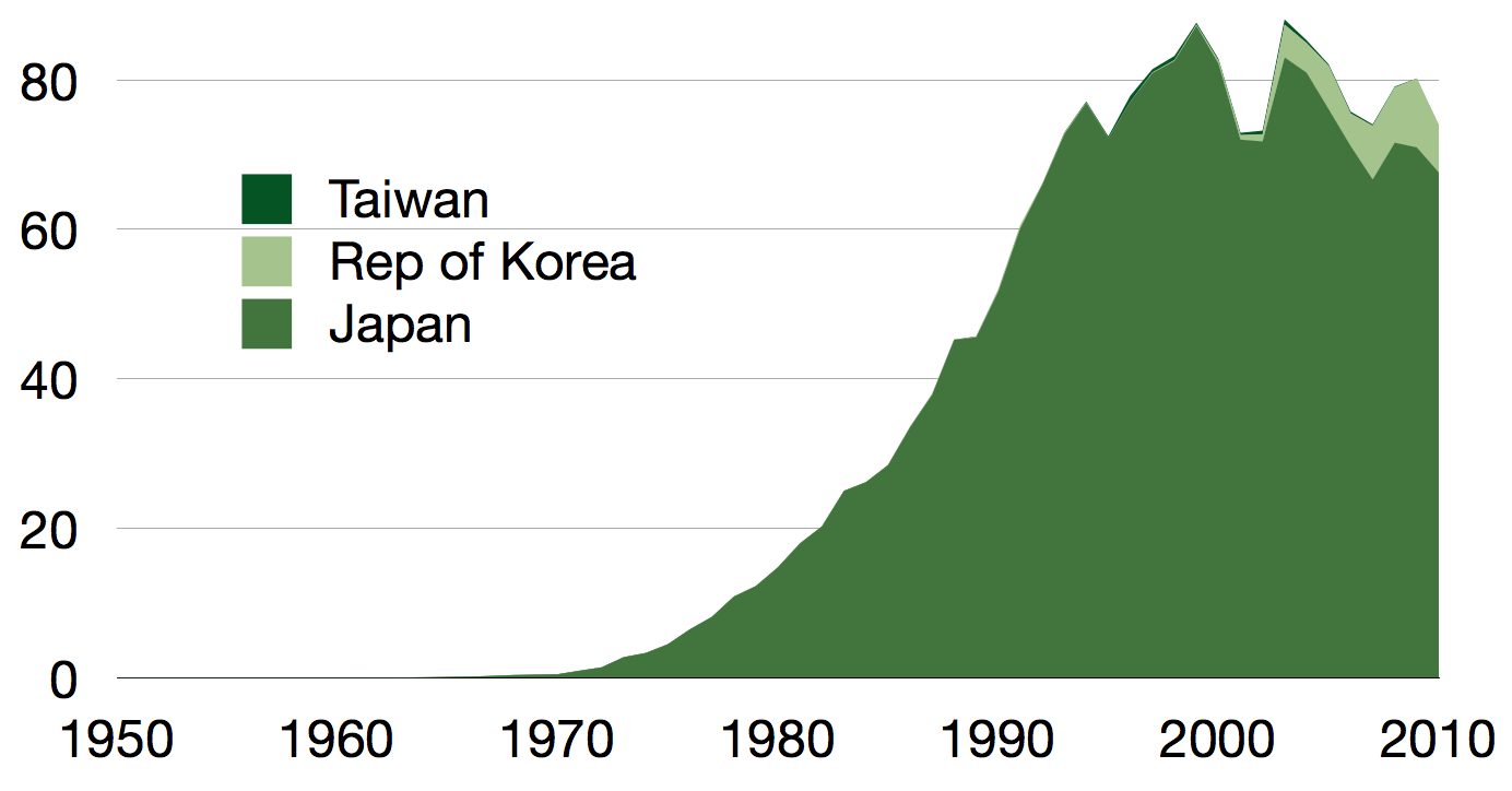 Global aquaculture production of farmed silver seabream, Pagrus auratus, in thousand tonnes, 1950–2010, as reported by the FAO. Based on data sourced from the FishStat database